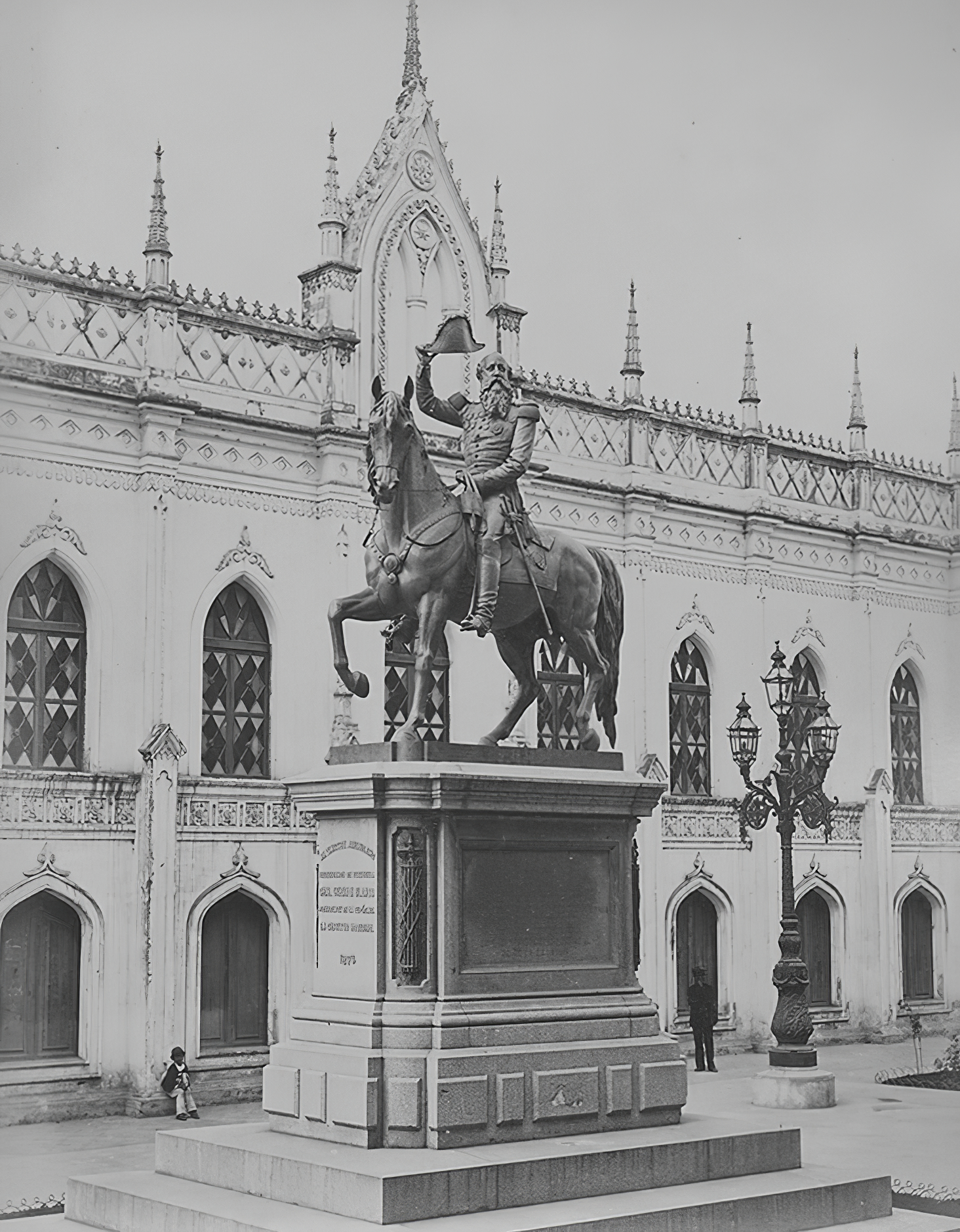 Estatue of Guzmán Blanco known as El Saludante by Joseph A. Bailly